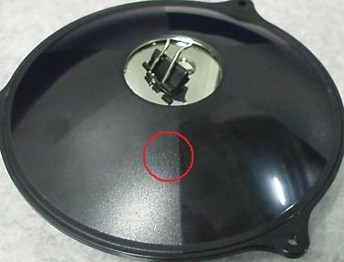 from a middle point of view